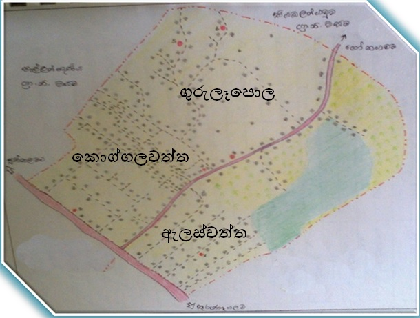 ගුරුලෑපොල දළ සිතියම